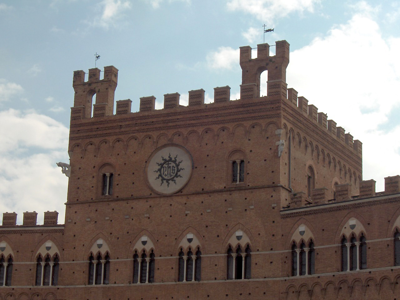 Palazzo Pubblico; Siena, Italy Own photo - photo made by Georges Jansoone on 11 October 2005